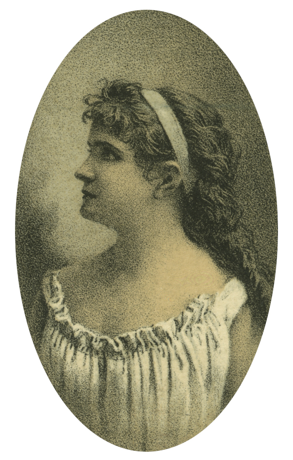 Portrait of actress Stella Boniface as "Virginia"